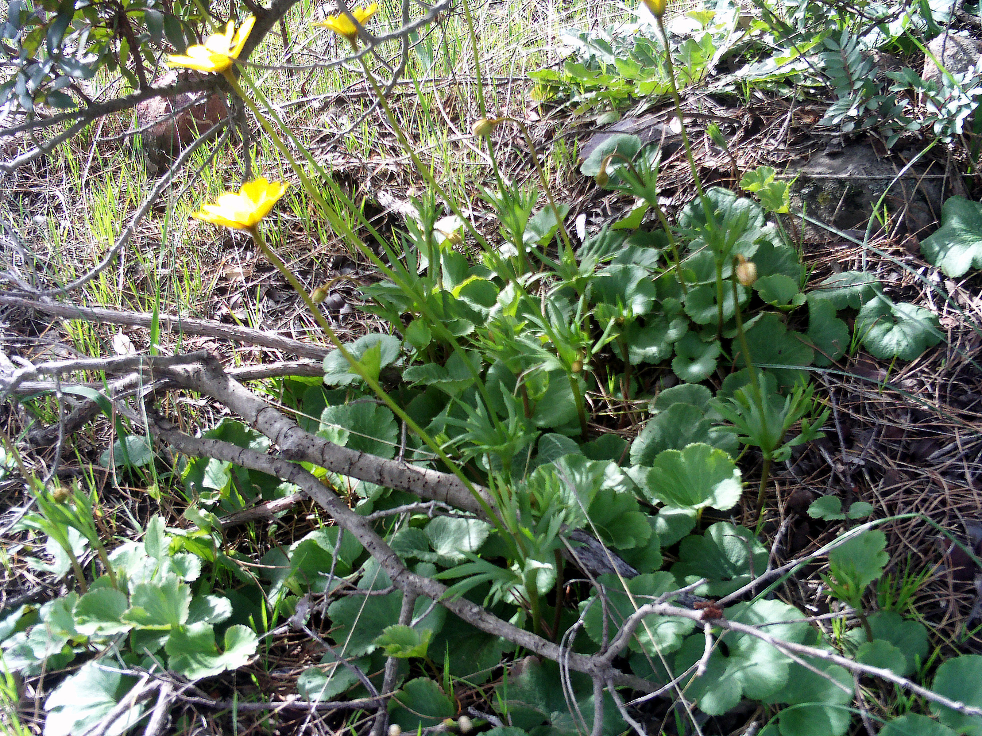 Anemone palmata Habitus, Dehesa Boyal de Puertollano, Spain